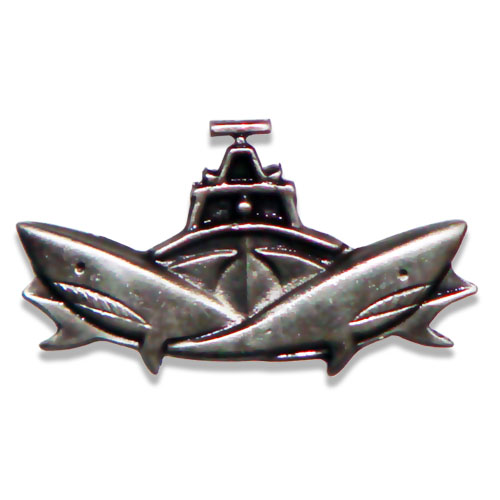 Israeli Navy Dvora insignia